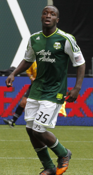 Portland Timbers reserves vs Vancouver Whitecaps reserve, May 2012